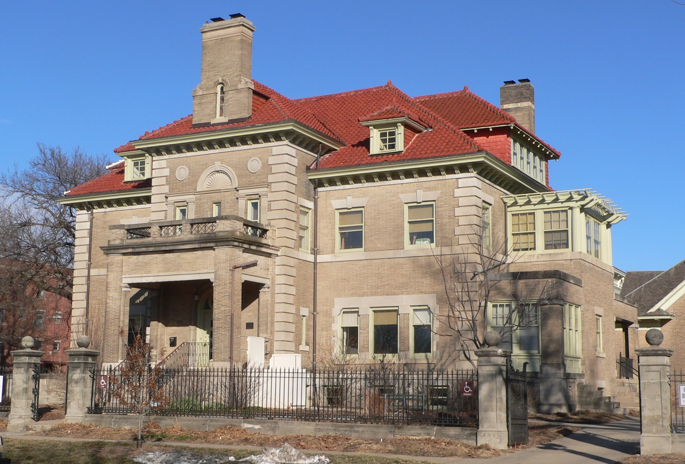 William H. Ferguson house, located at 700 S. 16th Street in Lincoln, Nebraska; seen from the southwest.